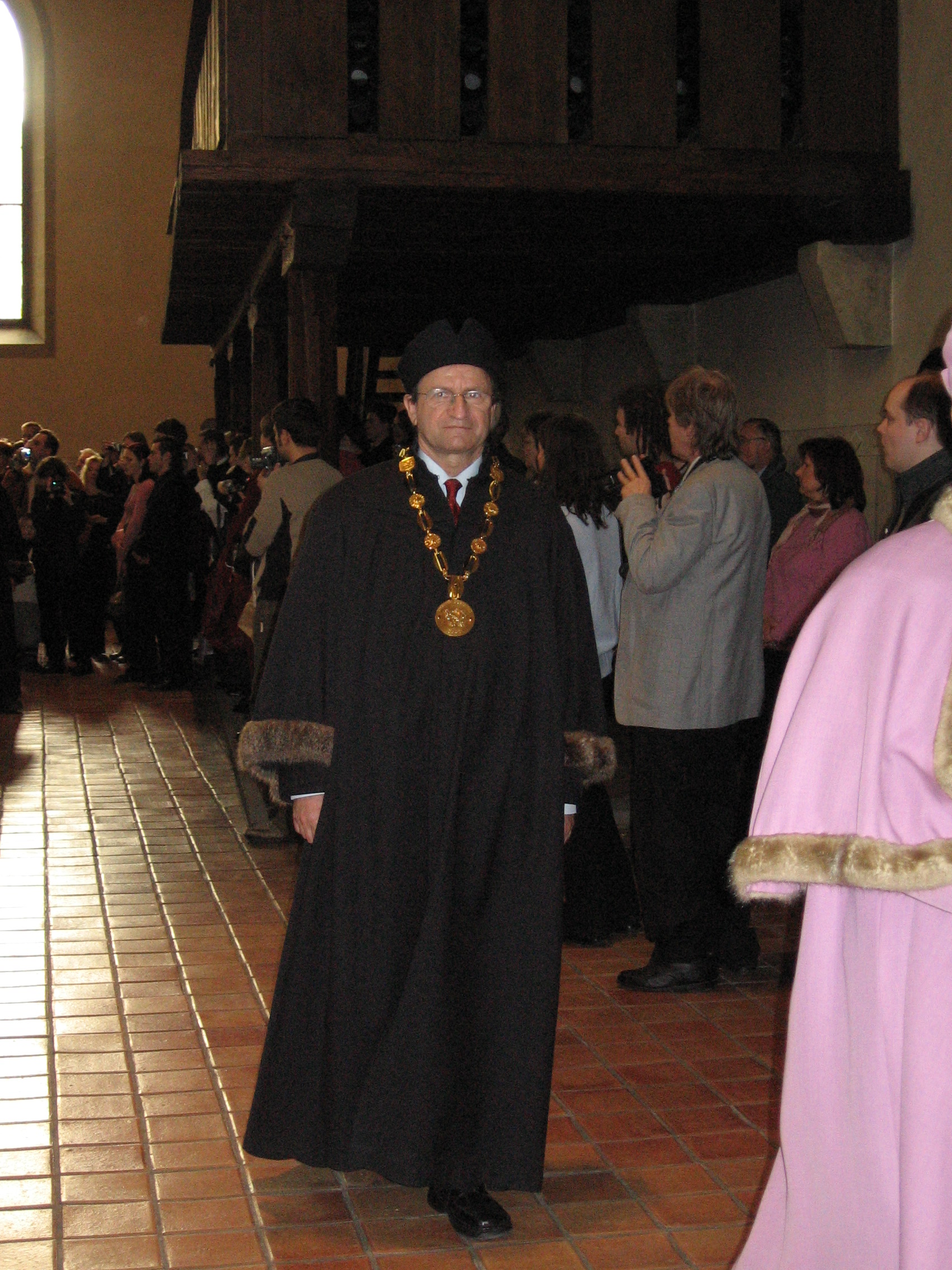 Prof.Ing.Petr Moos, CSc.